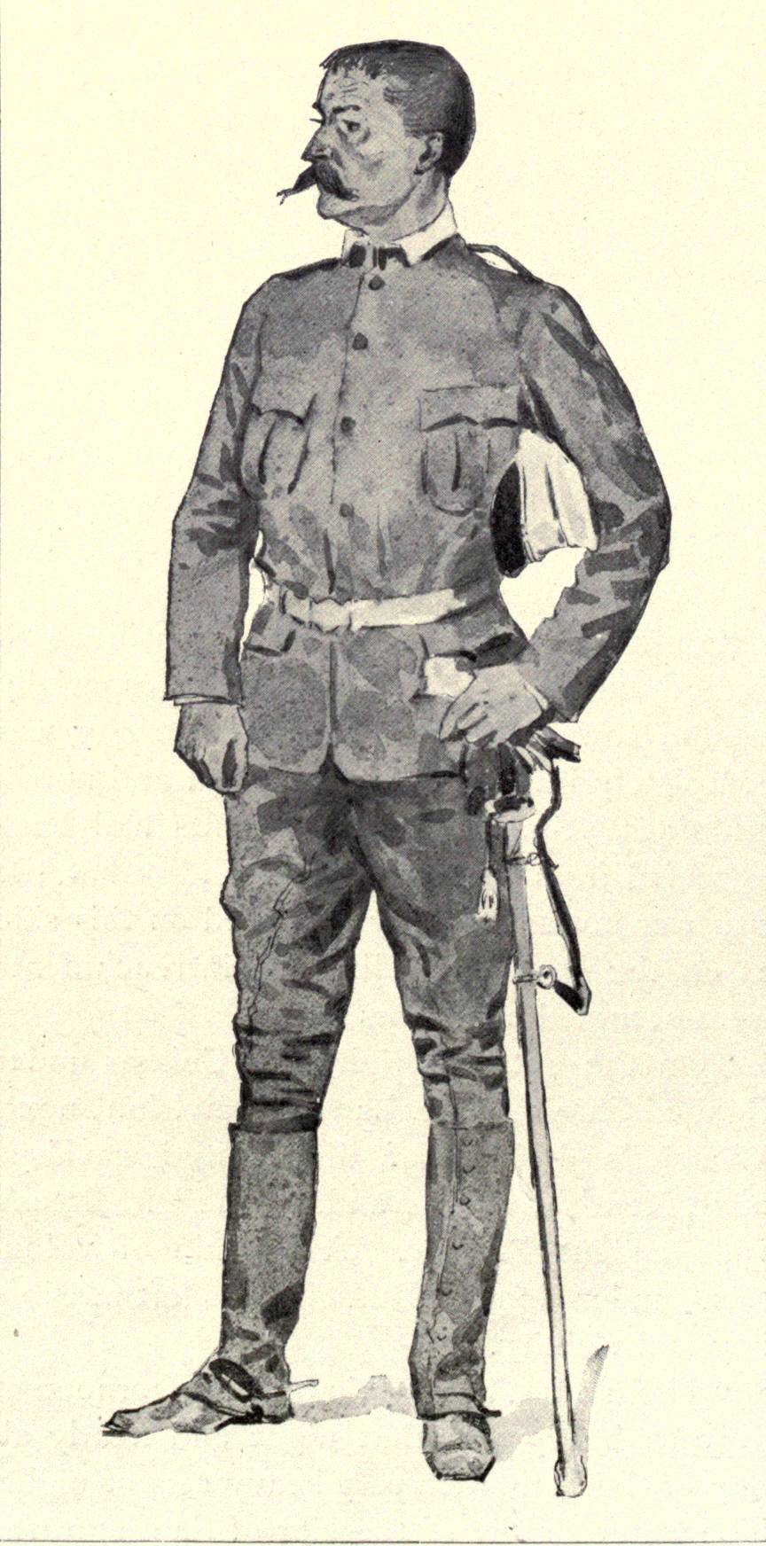 Drawing of Brig. Gen. William Ludlow. From p. 378 of Harper's Pictorial History of the War with Spain, Vol. II, published by Harper and Brothers in 1899.